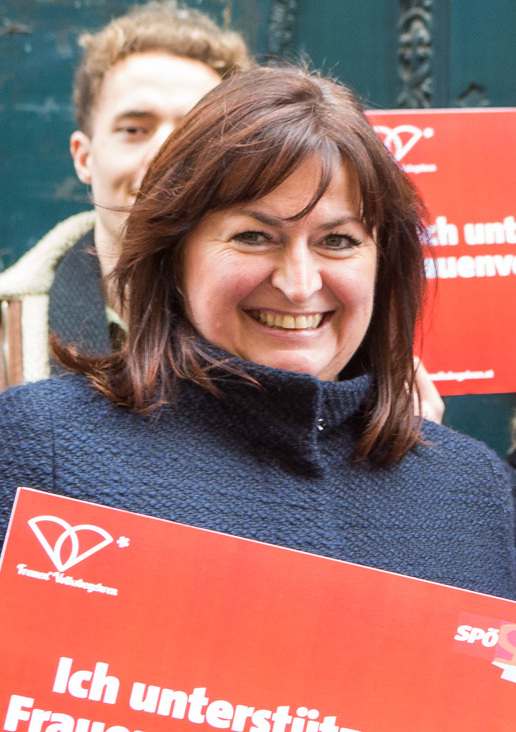 Foto: Astrid Knie